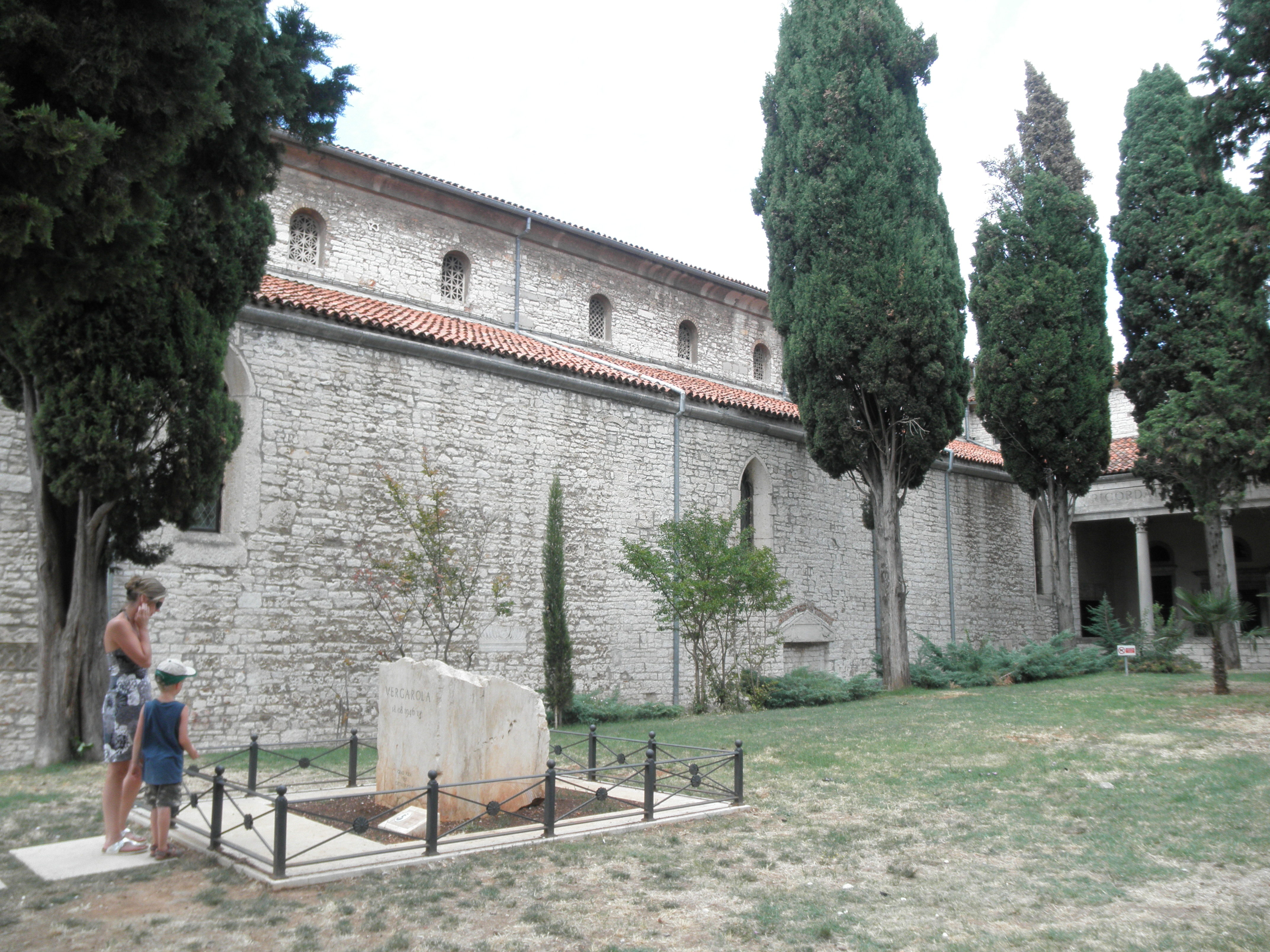 Memorial about the massacre of Vergarola in 1946 near the cathedral of Pula (Istria)